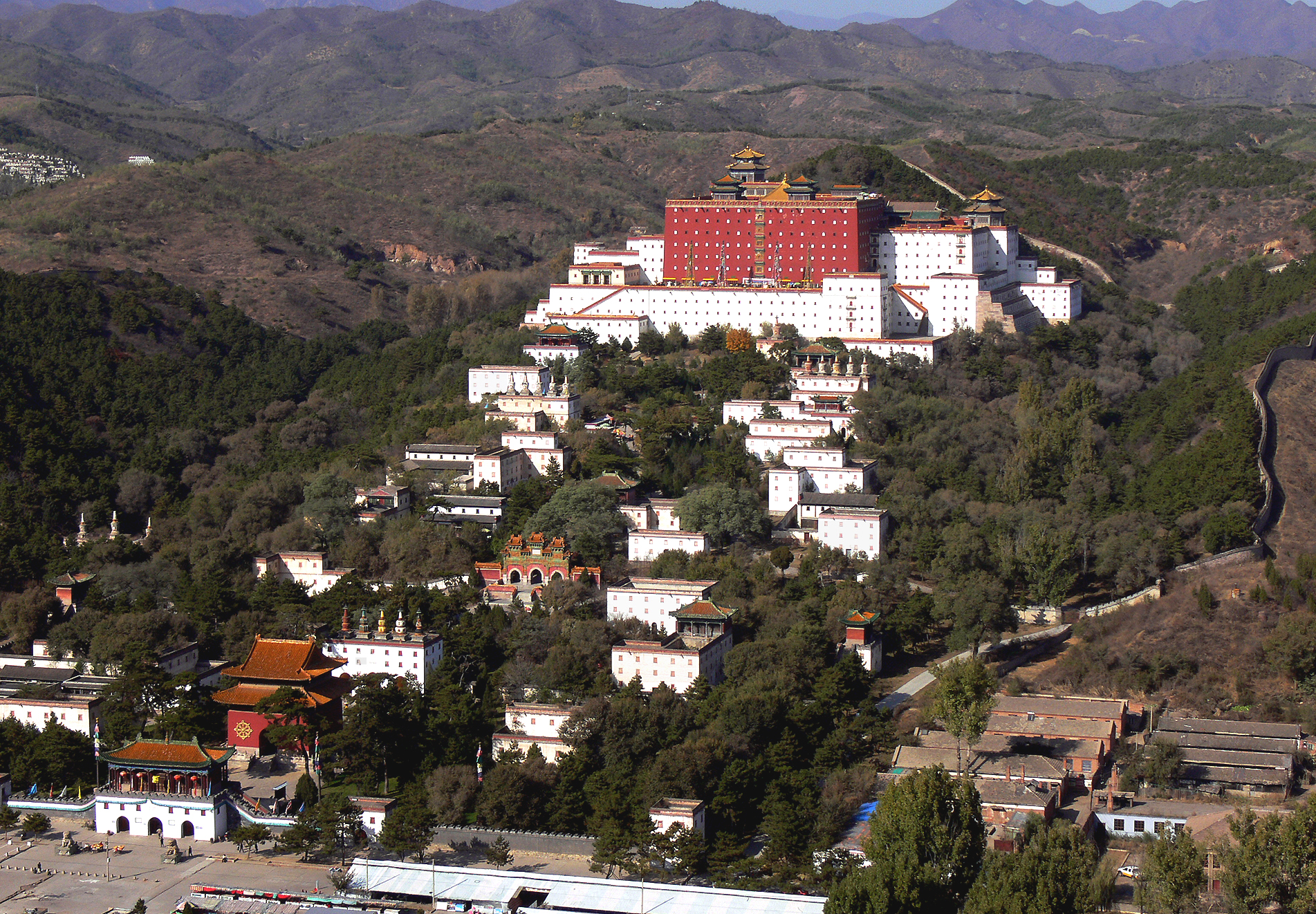 Birds eye view of Putuo Zongcheng Temple at Chengde, China, a UNESCO world heritage site. The temple complex was built between 1767 and 1771, during the reign of the Qianlong Emperor.